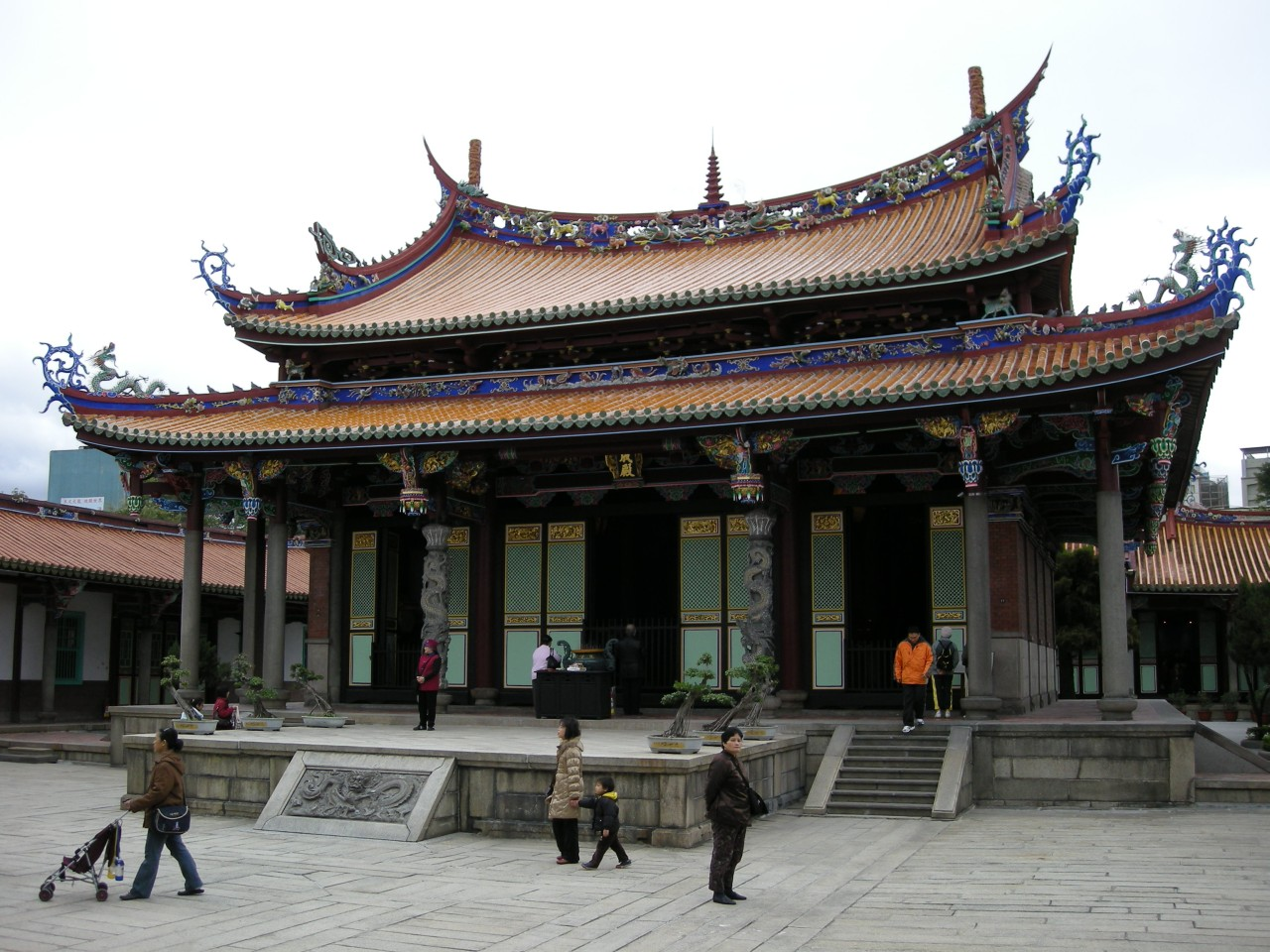 Confucius Temple, Taipei City, Taiwan